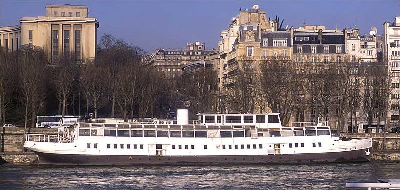 Paris, France. The SS Nomadic, originally a tender of the White Star Line Olympic and Titanic ships, docked on the Seine River in Paris. At the time of this photo (2000), the Nomadic was not in use, although it had recently been a restaurant.